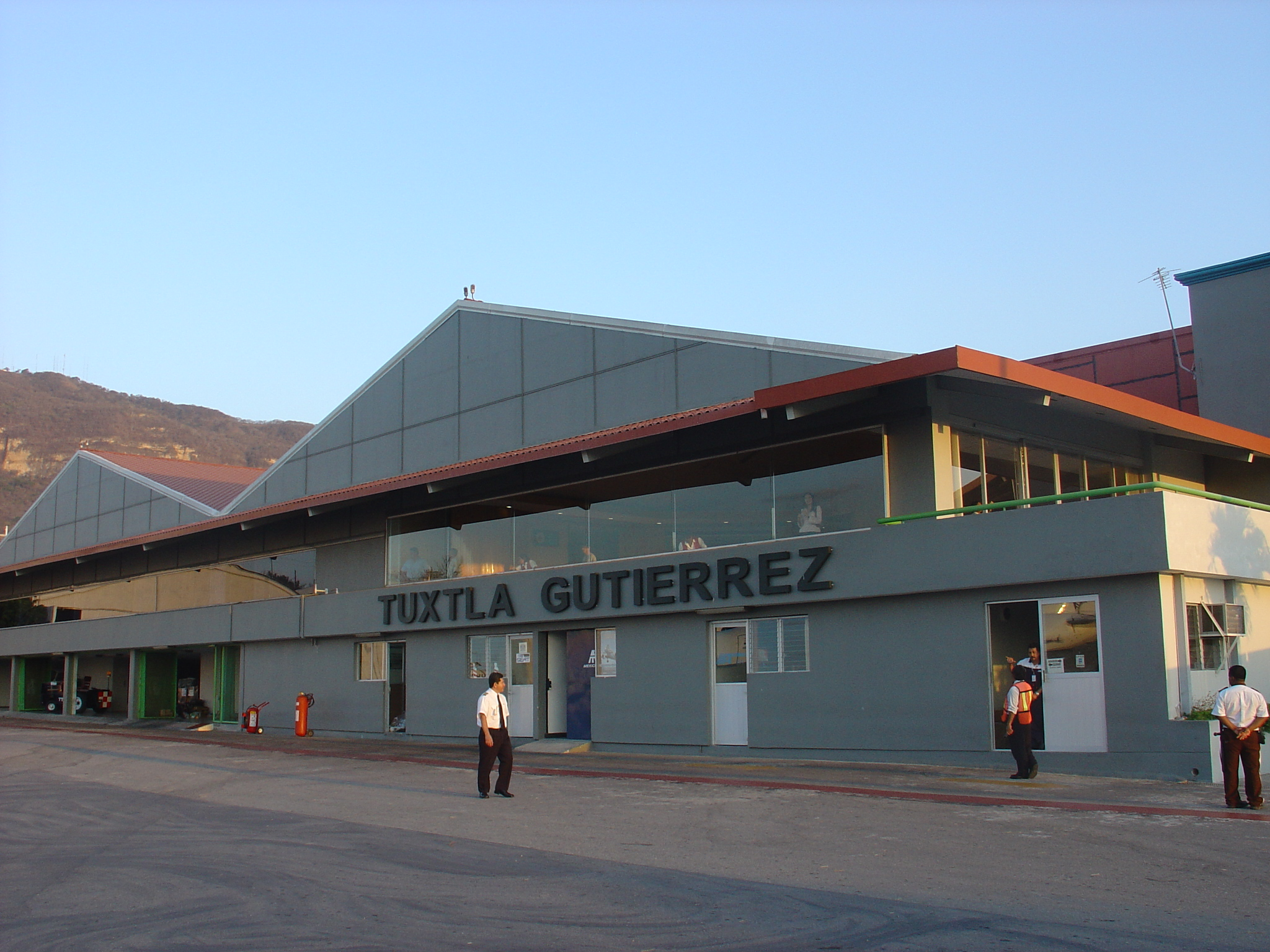 Old airport of Tuxtla Gutiérrez, Chiapas, México